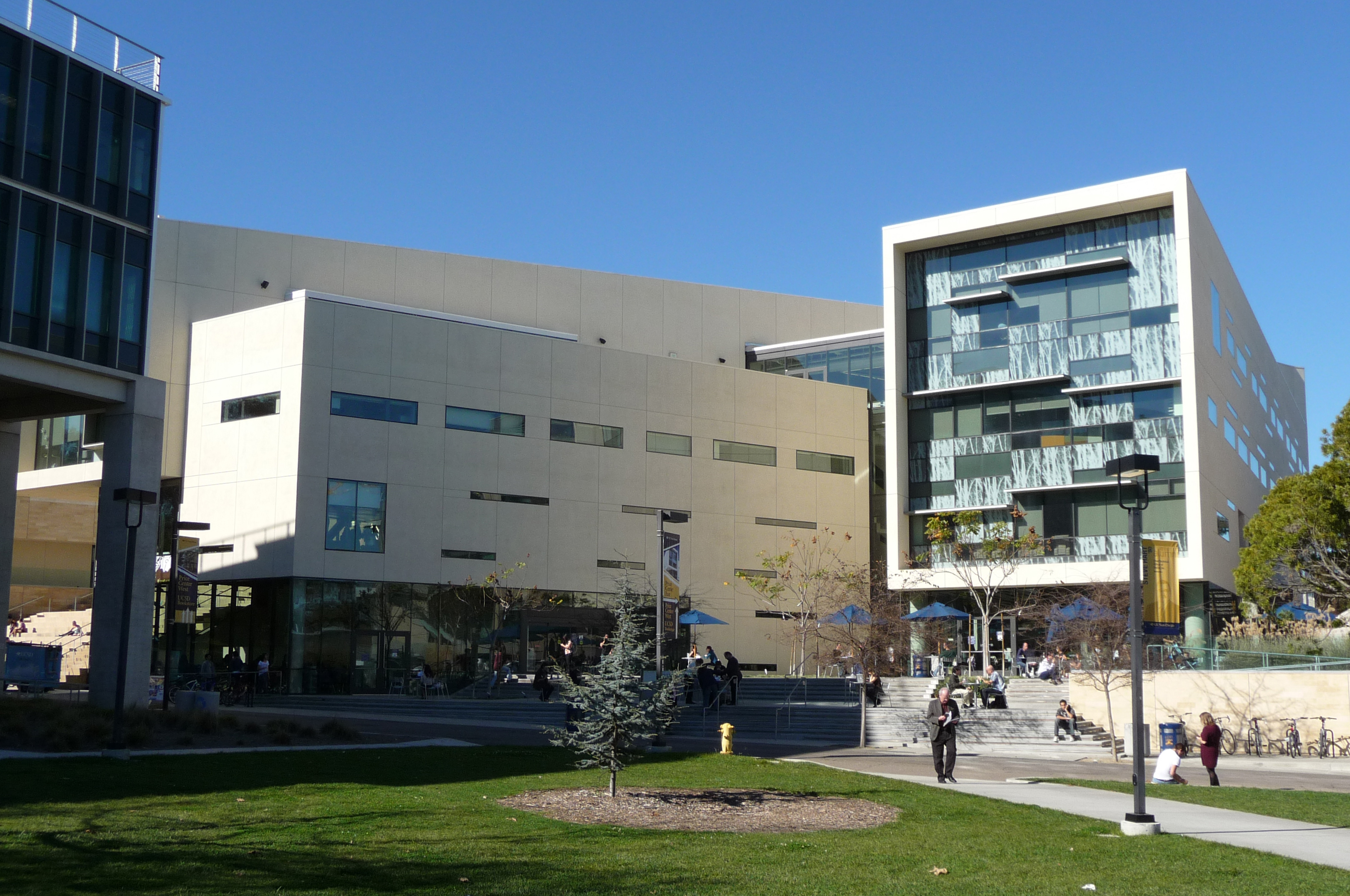 An exterior view of Price Center East (south side) in the central area of UCSD.